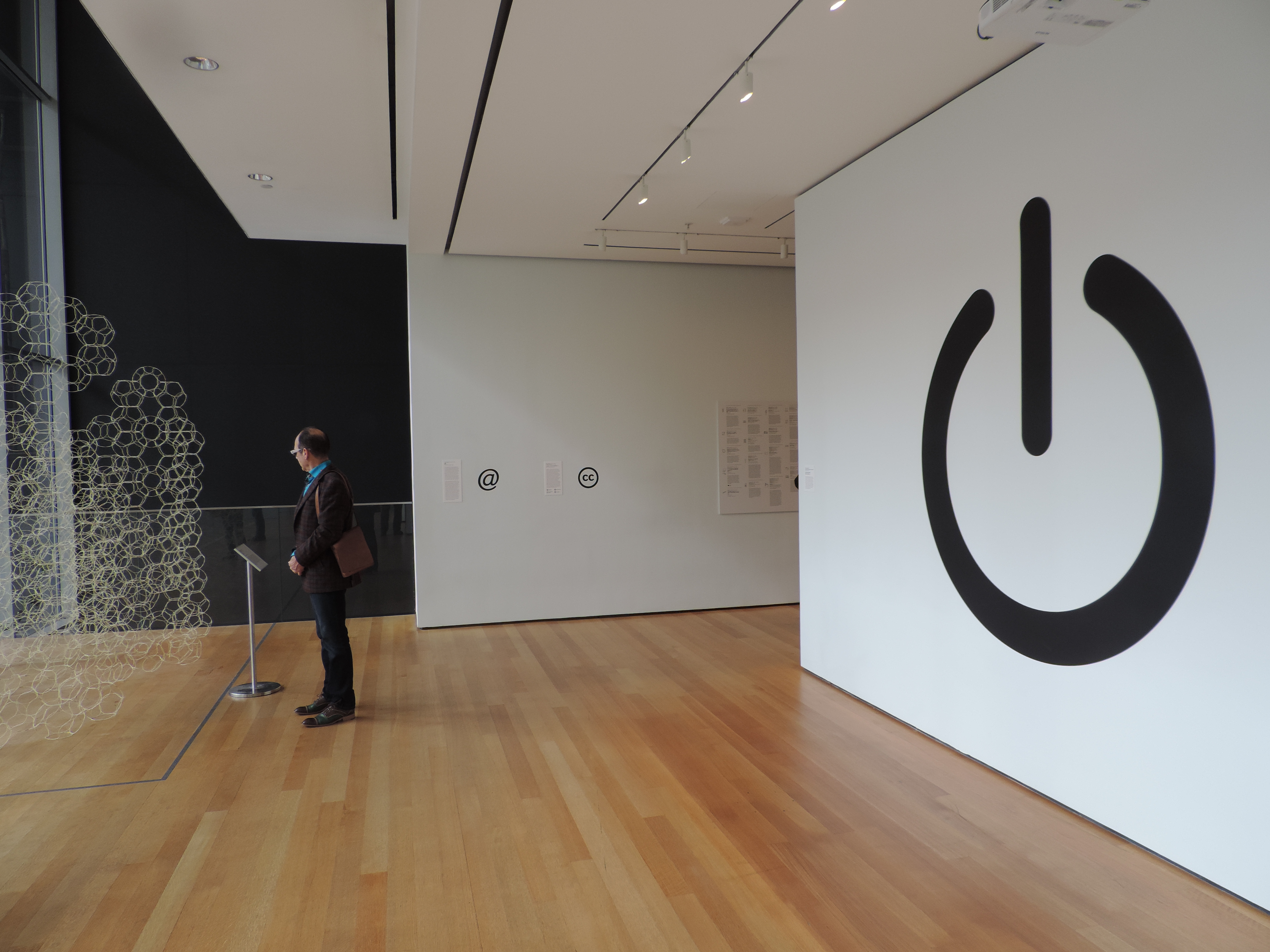 Power button symbol and biowall